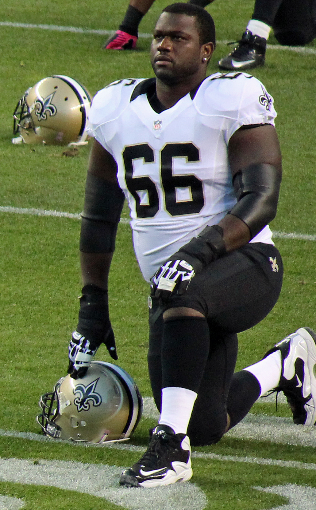 Ben Grubbs, a player on the National Football League.